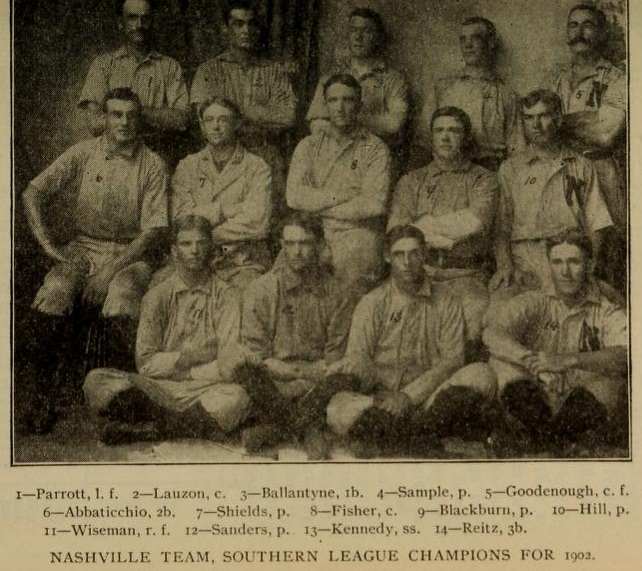 The 1902 Nashville Vols (known then as the Nashville Baseball Club), a minor league baseball team from Nashville, Tennessee